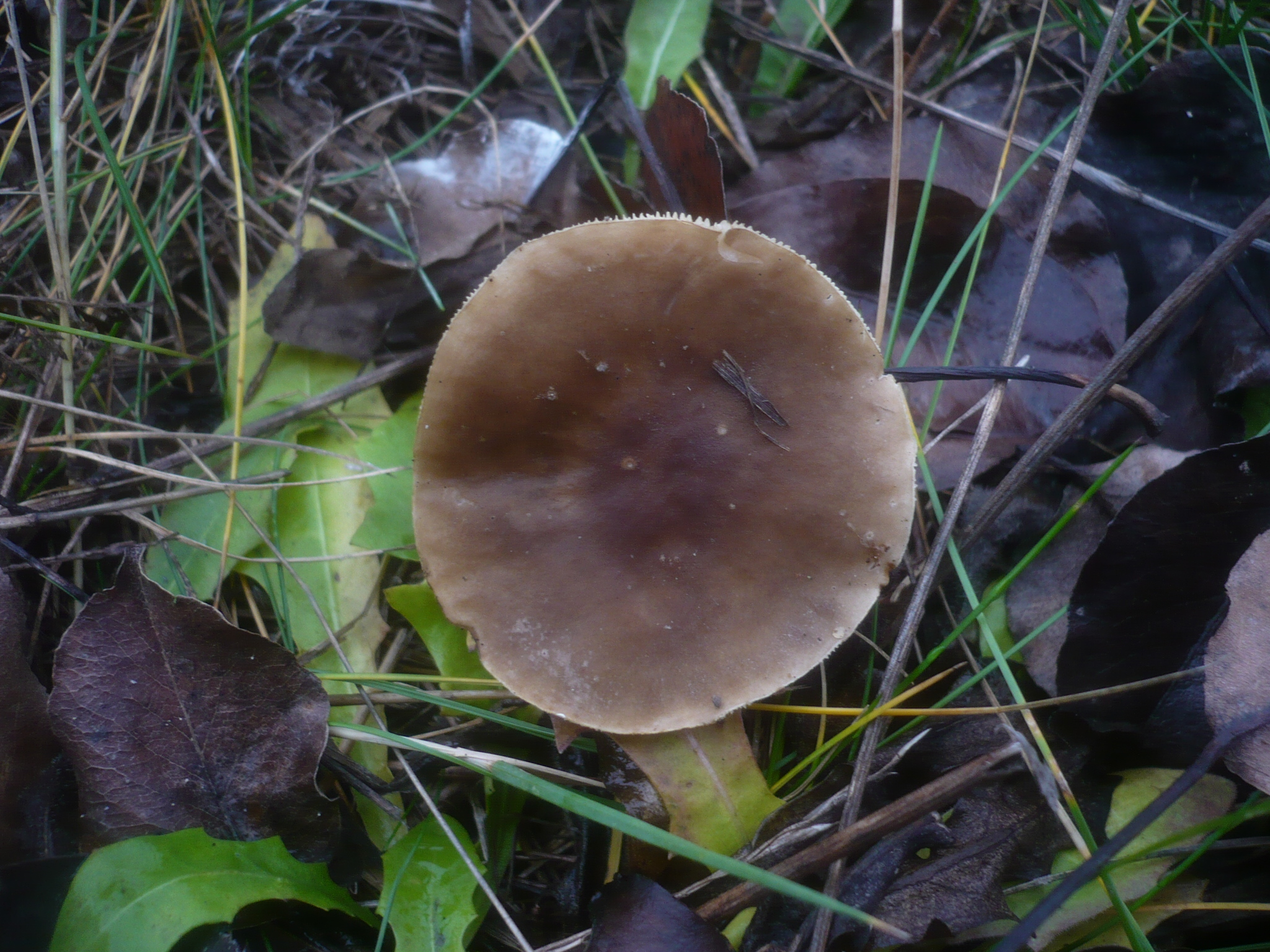 Melanoleuca polioleuca (Fr.) Kühner & Maire Image location: Rollbrandt, Mattersburg, Bezirk Mattersburg, Burgenland, Austria Recognized by sight Used references Based on microscopic features For more information about this, see the observation page at Mushroom Observer.